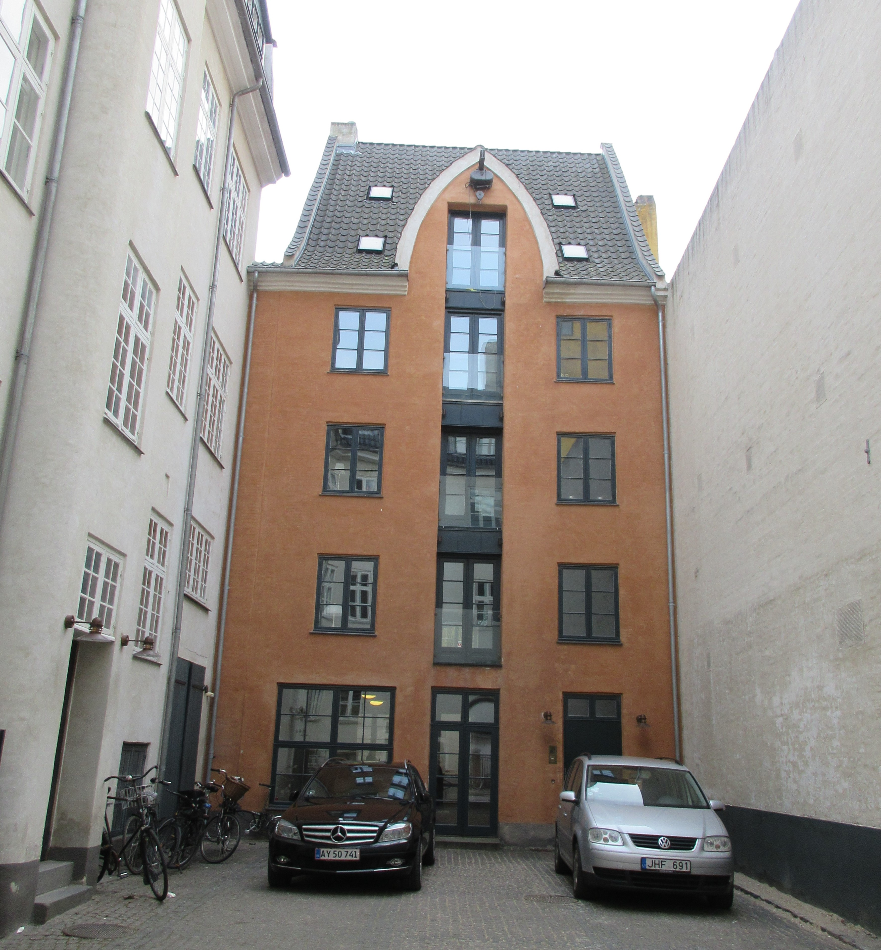 Kronprinsessegade 36B in Copenhagen, Denmark